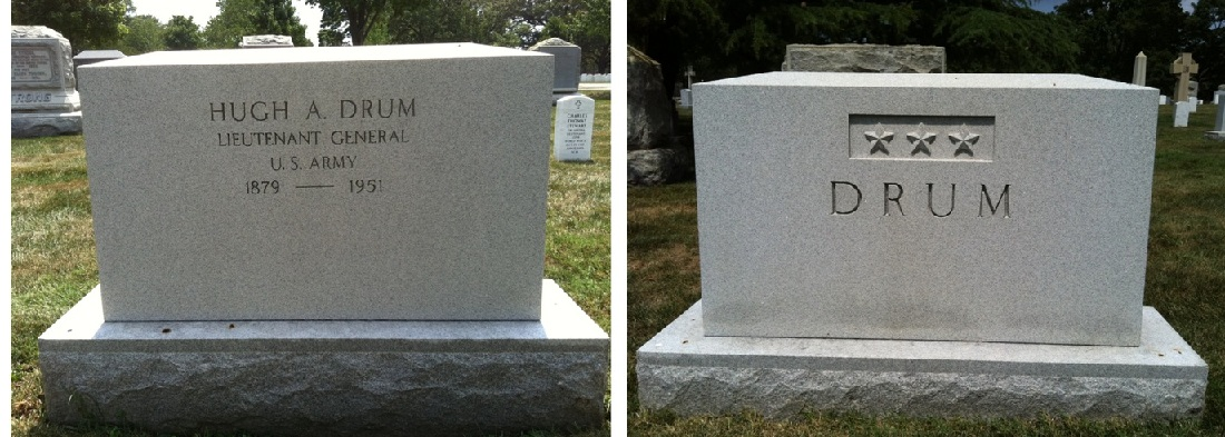 Front and back of Lieutenant General Hugh A. Drum's gravestone, Arlington National Cemetery